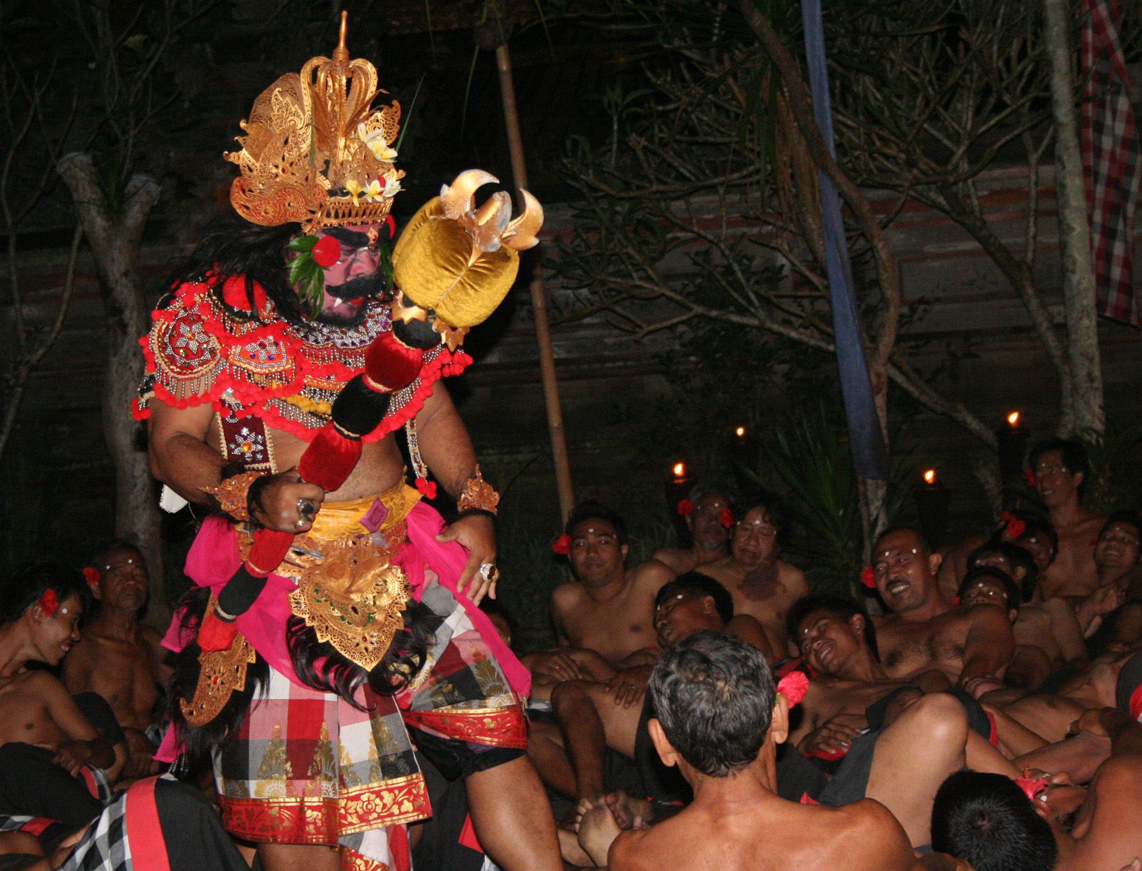 The giant Kumbhakarna of the Ramayana epic, in a Balinese Kecak performance.